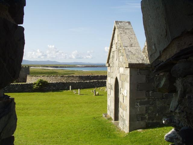 Oronsay Priory